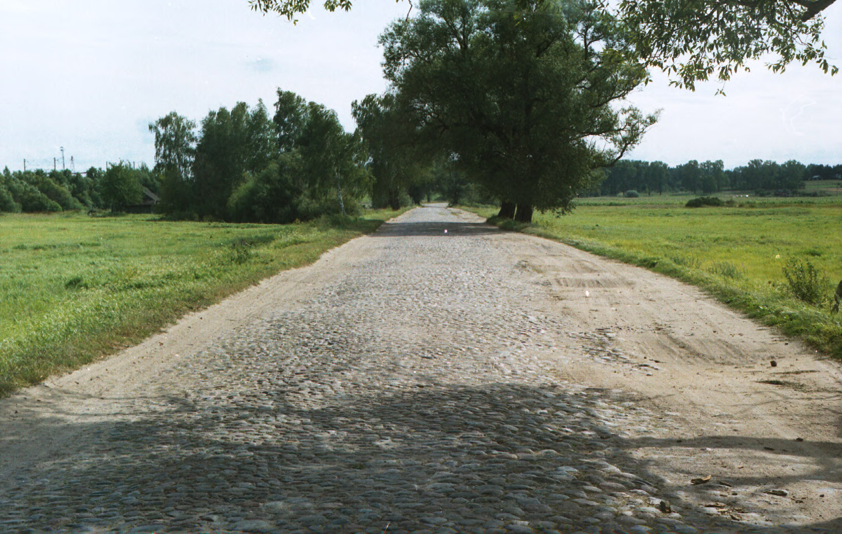 Cobblestoned road in Belarus